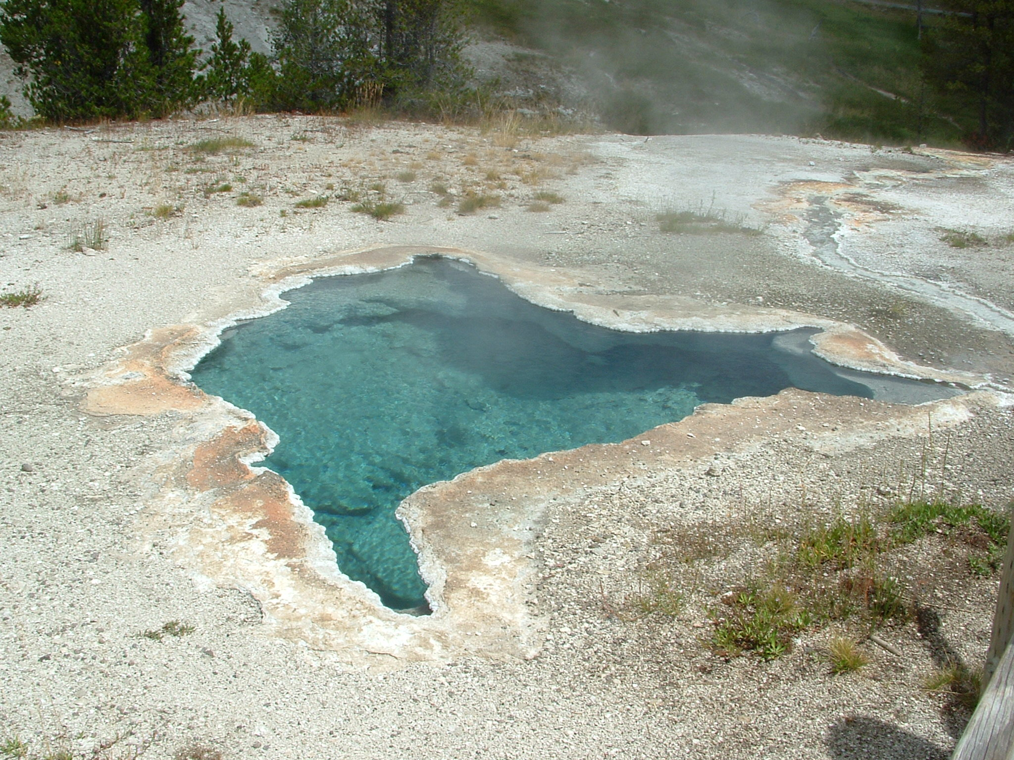 Original description lost in transfer- can you help?